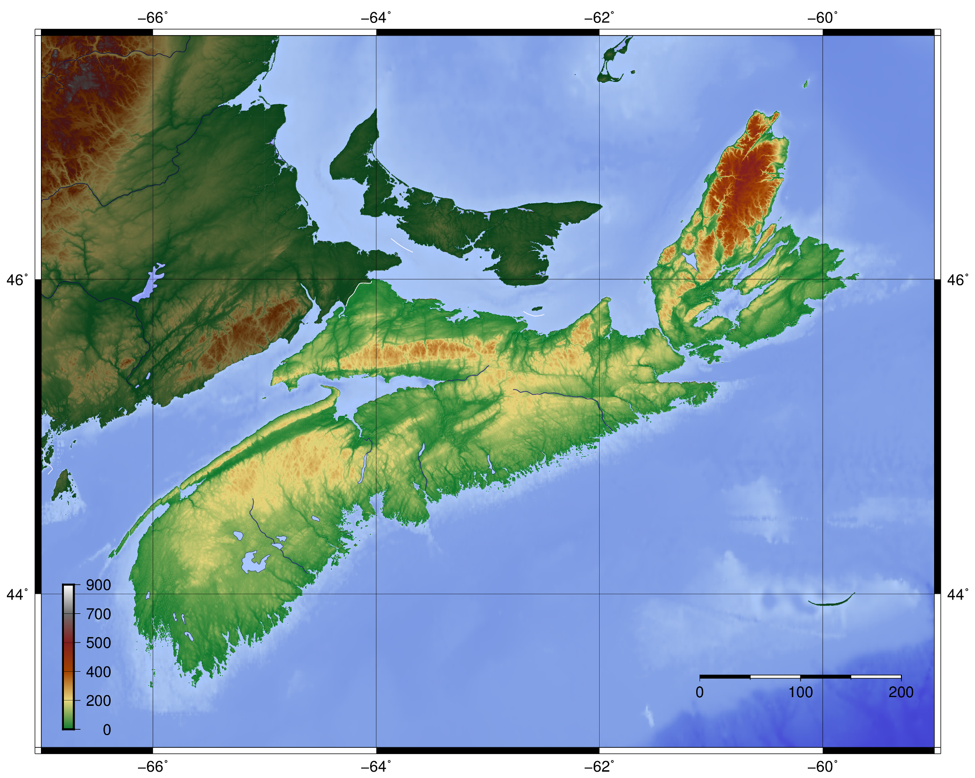 Topography of Nova Scotia, created with GMT 5.1.2